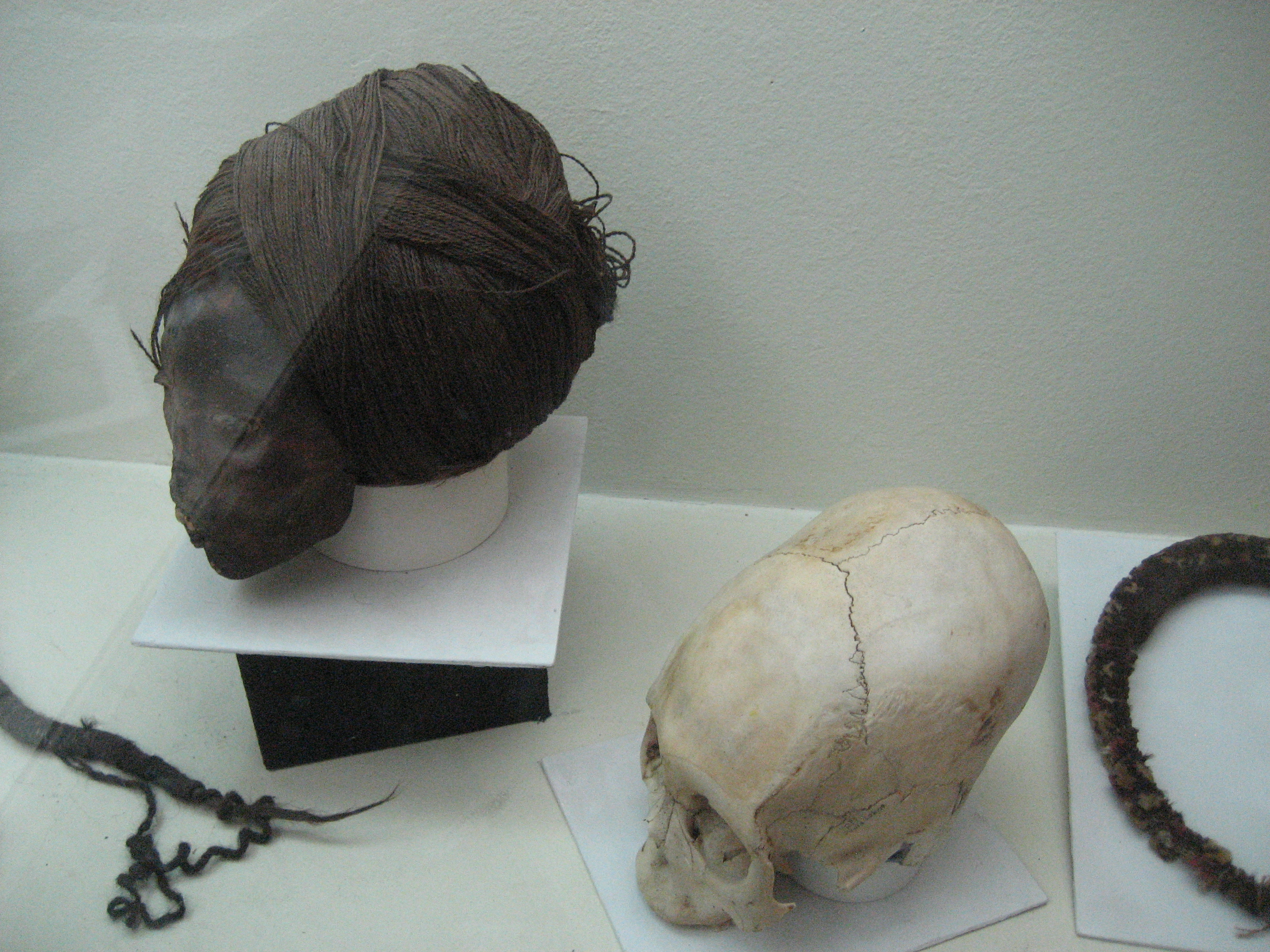 Deformed craniums from 500-1000 B.C. at Anker Nielsen museum in Chile.